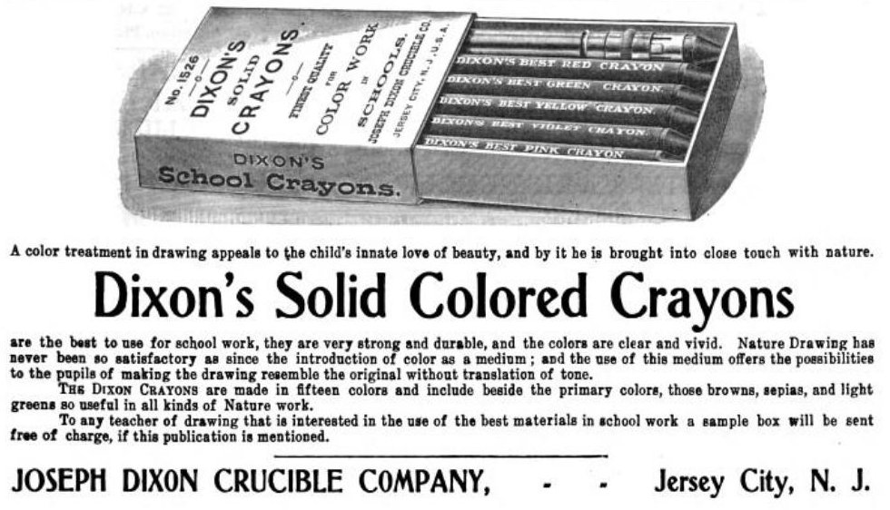 Dixon Solid Crayons Ad substantiating thier age a place in crayon history.